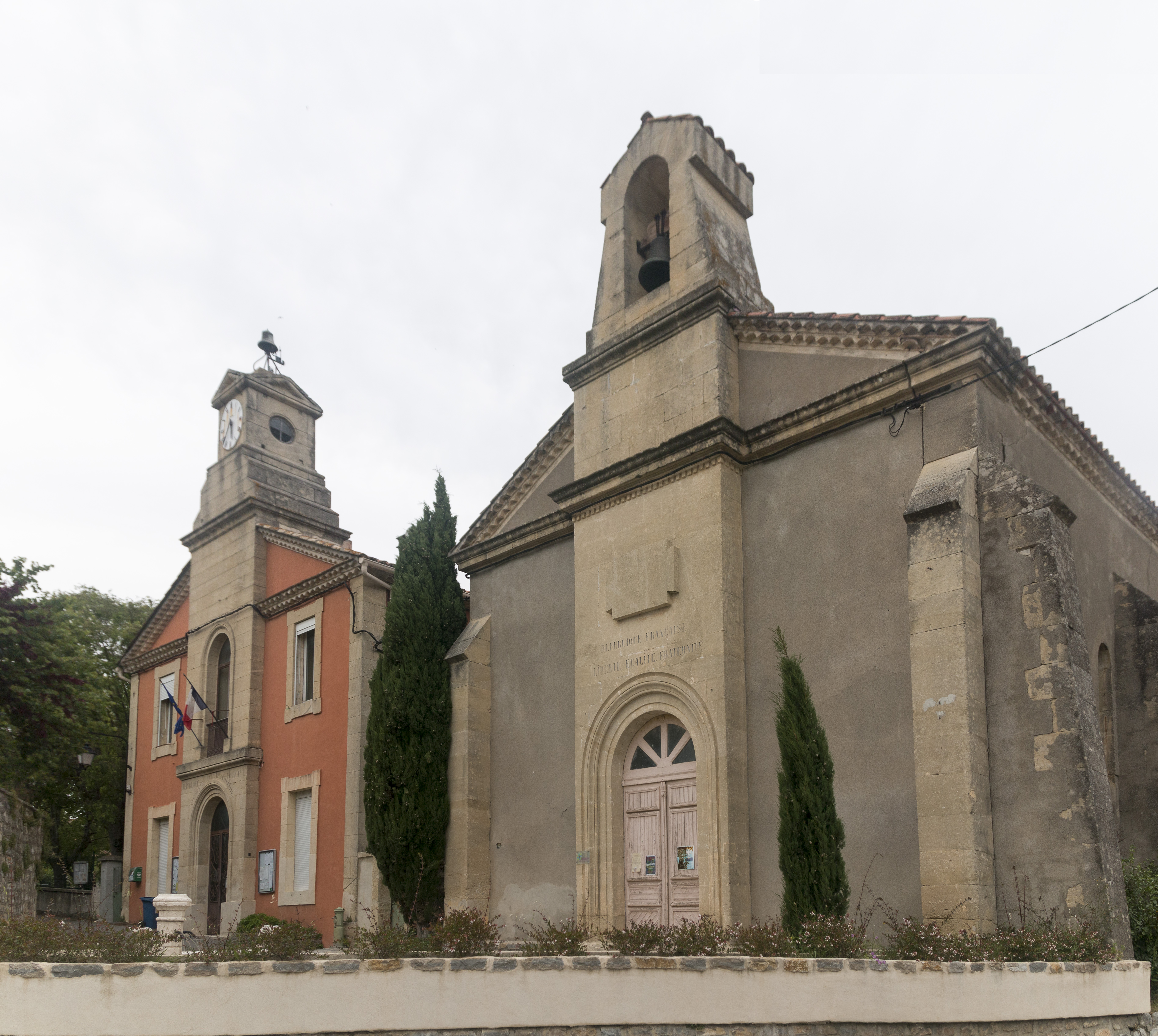 Cannes et Clairan town hall (left) and protestant church (right)